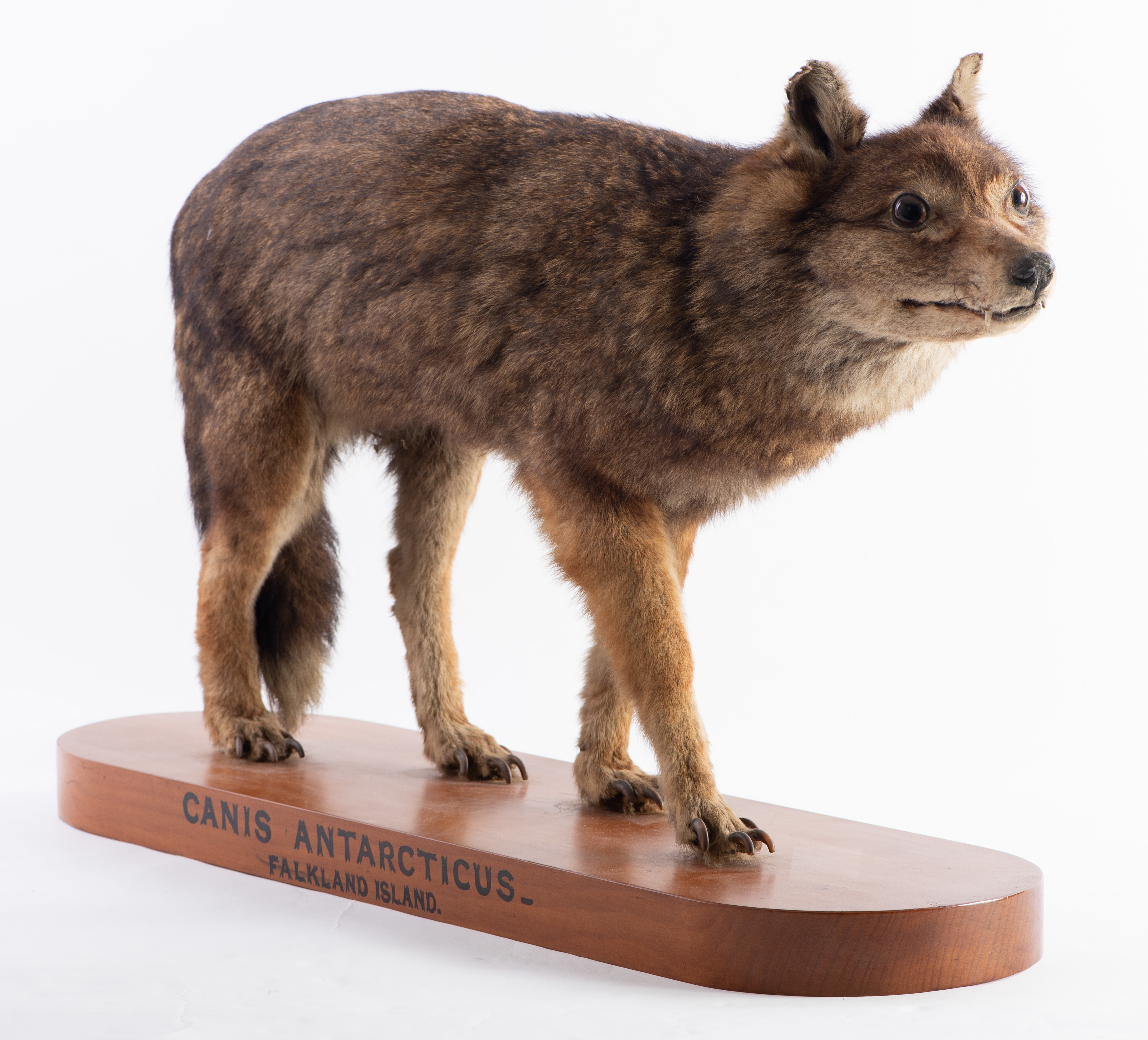 Warrah or Falkland Island wolf (Dusicyon australis); the specimen held at Otago MuseumDusicyon australis